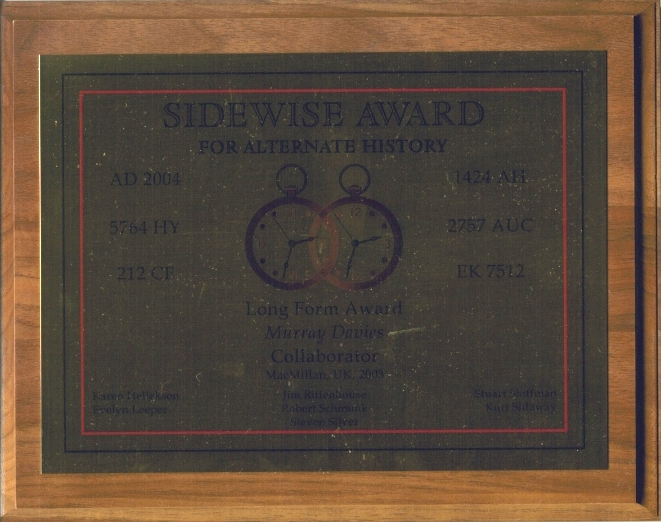 Picture of the 2003 Sidewise Award for Alternate History fiction awarded to author Murray Davies for his novel Collaborator, set in a fictional setting where Nazi Germany was able to successfully invade Great Britain during World War II.[1]